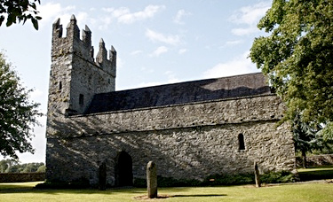 The restored St. Mary's Church, Castlemartin Estate, Kilcullen Bridge, Co. Kildare, Ireland, with surrounding graves, including those of Tony (Sir Anthony) O'Reilly's parents.